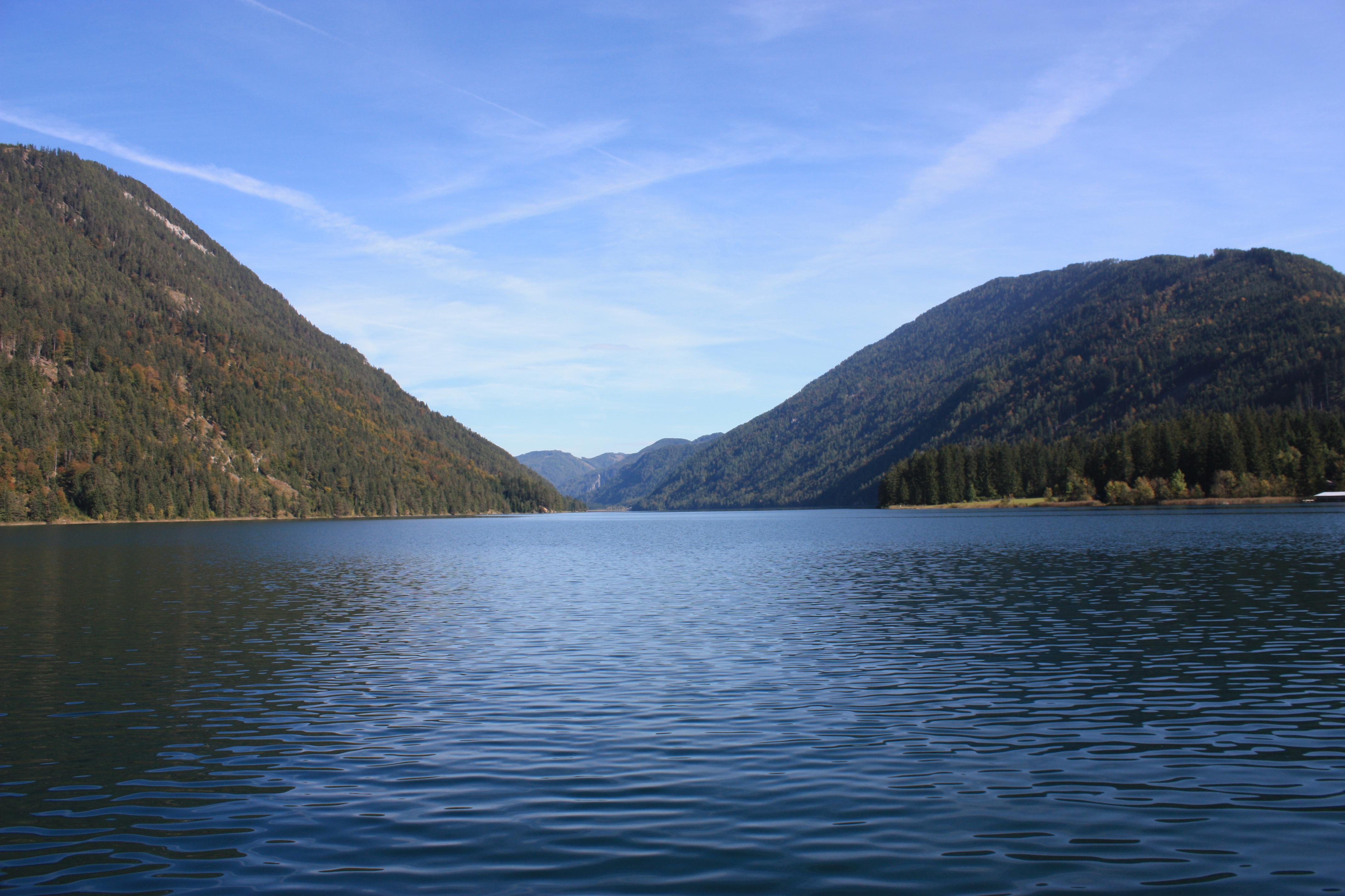 Eastern part of the Lake Locality:Weißensee Community:Weißensee